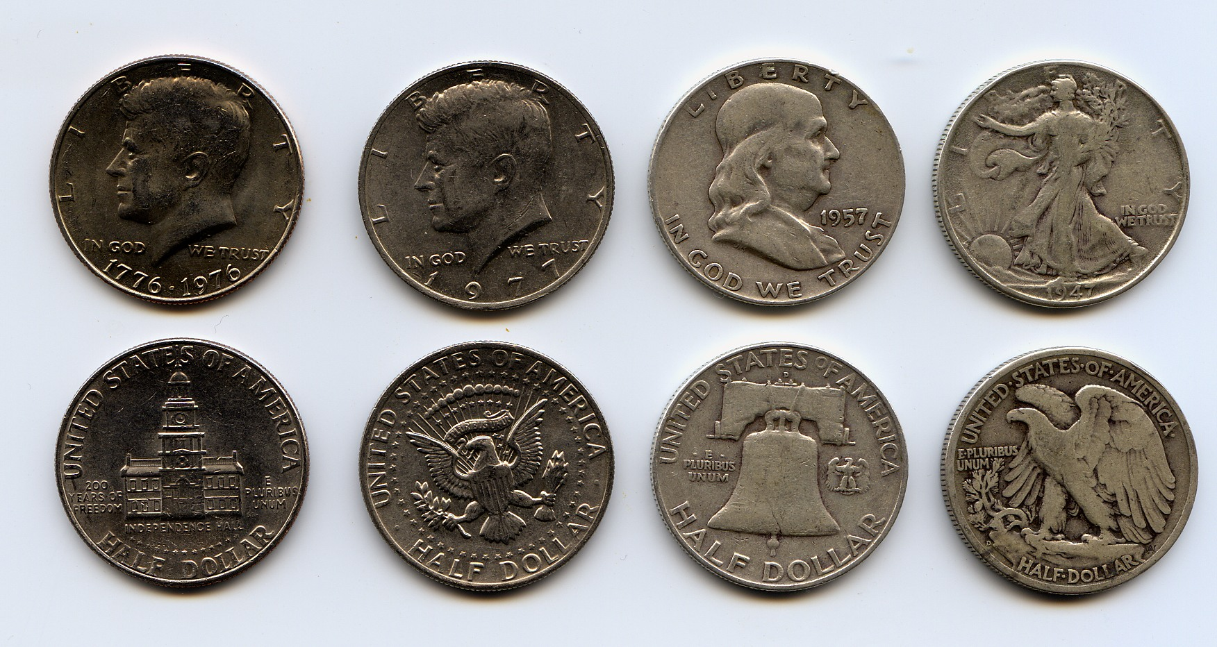 Different designs of the 50 cent piece. From left to right, the 1976 Bicentennial coin with Independence Hall on the back, the John F. Kennedy coin with the presidential seal on the back, Ben Franklin with the liberty bell on the back, and walking liberty with an eagle on the back.